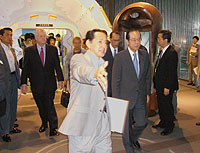 Astronaut Mamoru Mōri guided Prime Minister Yasuo Fukuda at the National Museum of Emerging Science and Innovation on June 8, 2008.